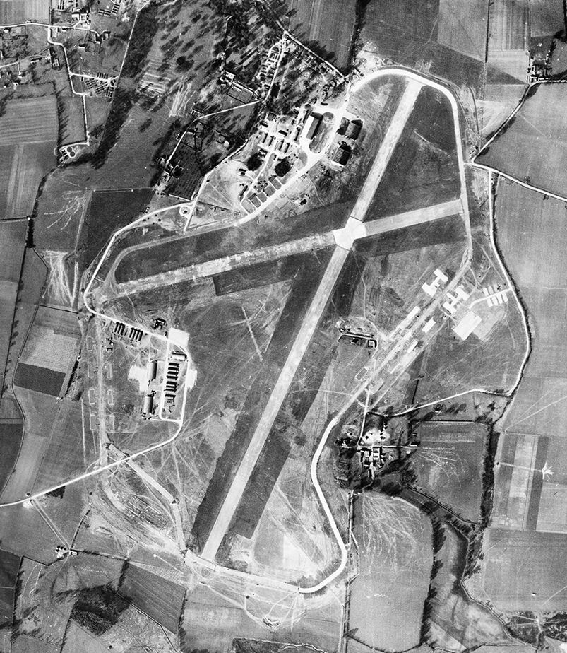 Aerial photograph of Kingston Bagpuize airfield the control tower is left of the runway intersection, 8 March 1944. Photograph taken by 7th Photographic Reconnaissance Group. USAAF, sortie number US/7PH/GP/LOC208. English Heritage (USAAF Photography).